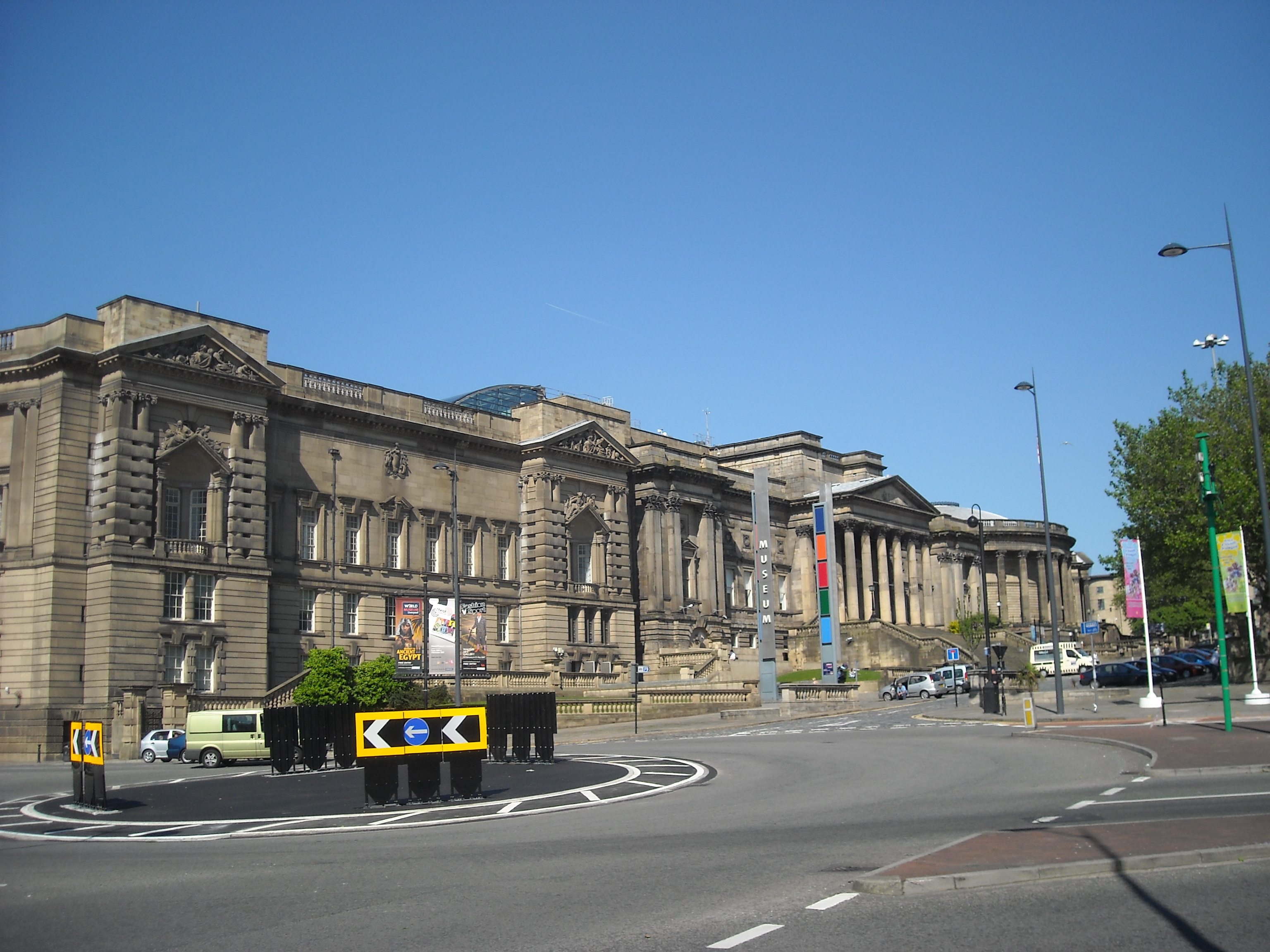 World Museum Liverpool